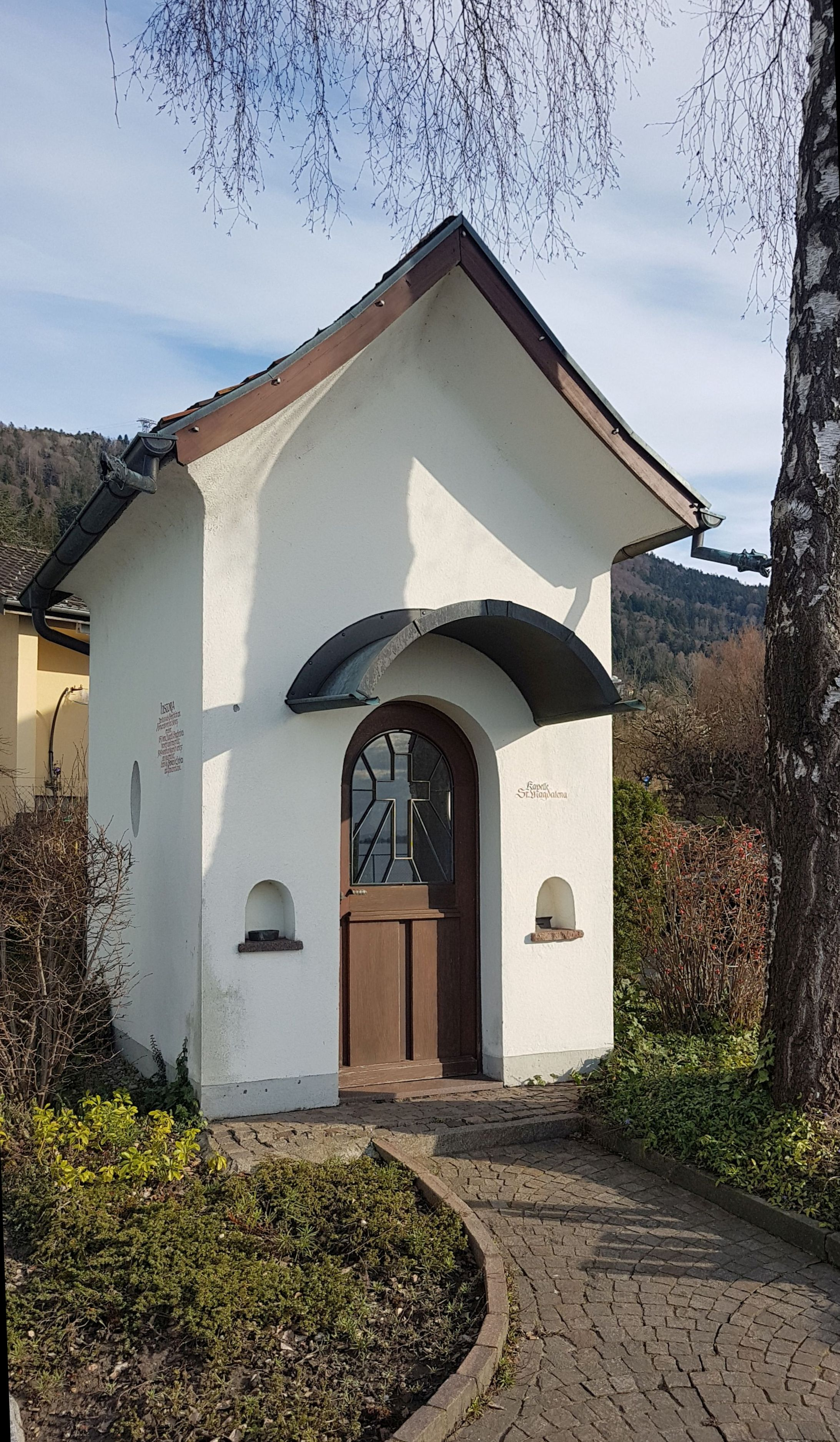 This chapel in Lochau (Vorarlberg, Austria) was first mentioned in 1643. In 1831, when a road was built along the shores of Lake Constance, it was relocated to Pfänder (mountain) and rebuilt. The chapel was the last stop for the people who were to be executed on the gallows hill behind it and is therefore also called: "Chapel of the poor", "Gallows Chapel", "Penitent Chapel", "Magdalena Chapel after Magdalena the Penitent".